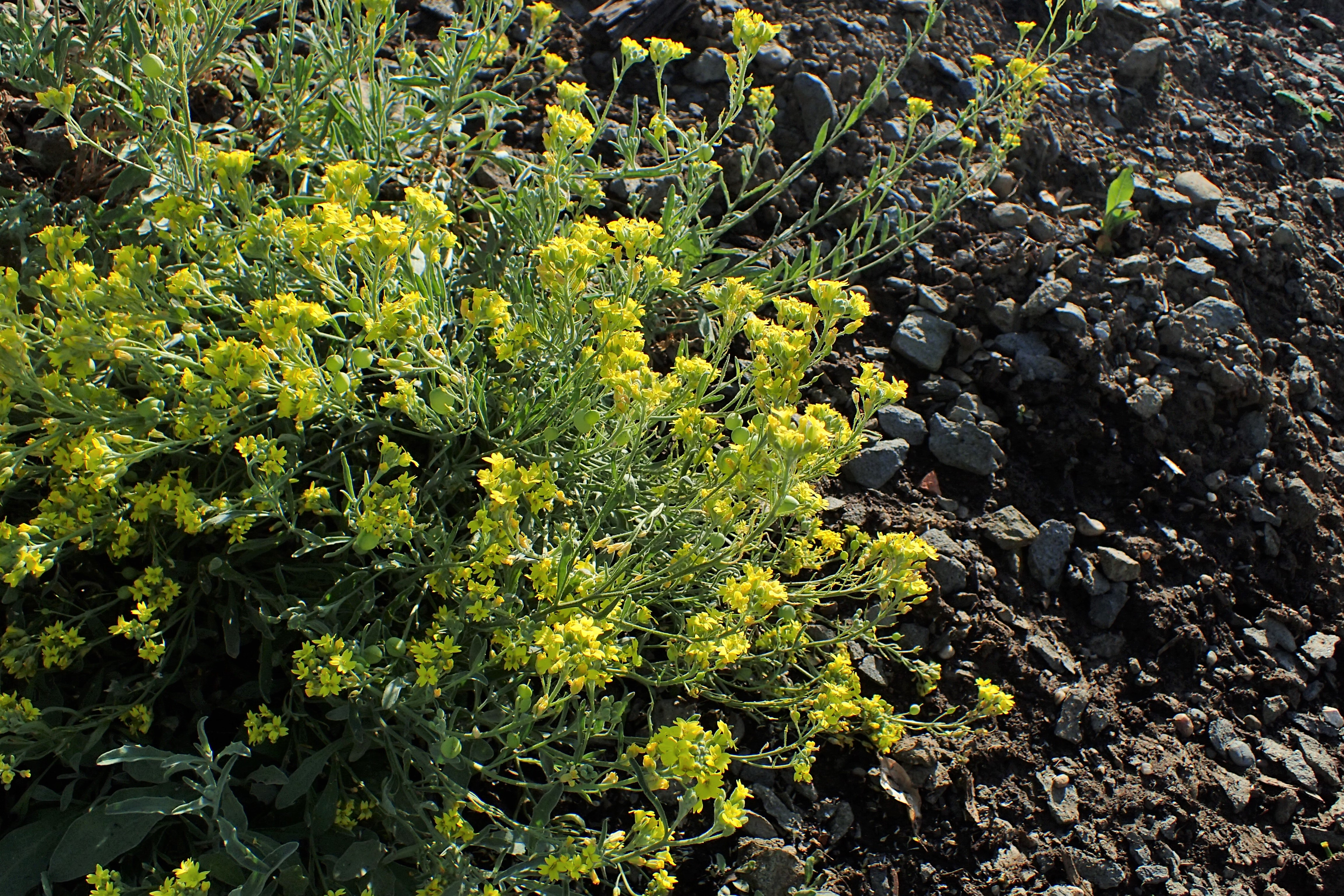 Aurinia sinuata in Jibou Botanical Garden